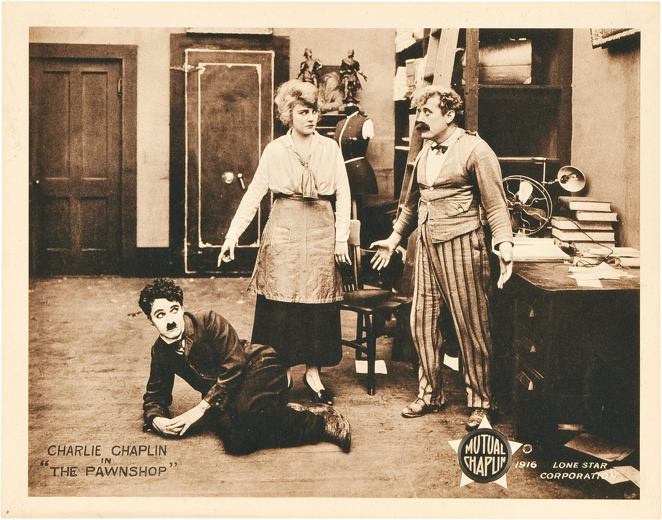 The Pawnshop (Mutual, 1916) with Charlie Chaplin, Edna Purviance, and John Rand. Lobby Card (11" X 14").